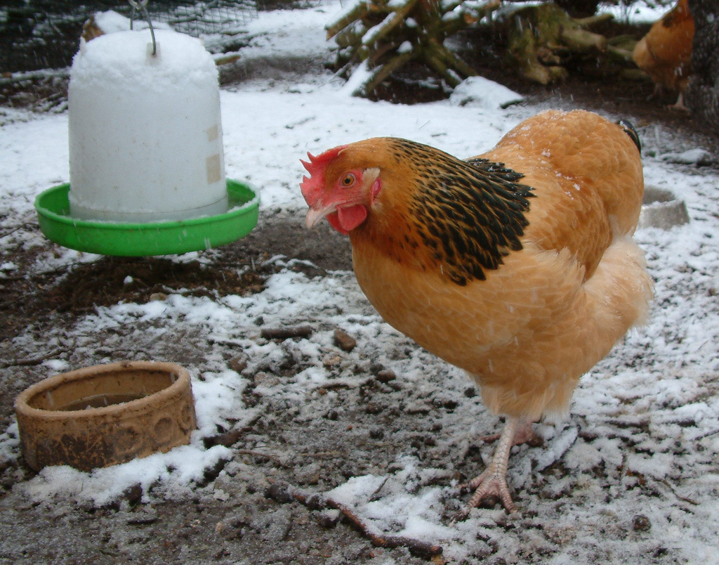 A Buff Sussex hen in winter, with feeder in left background.